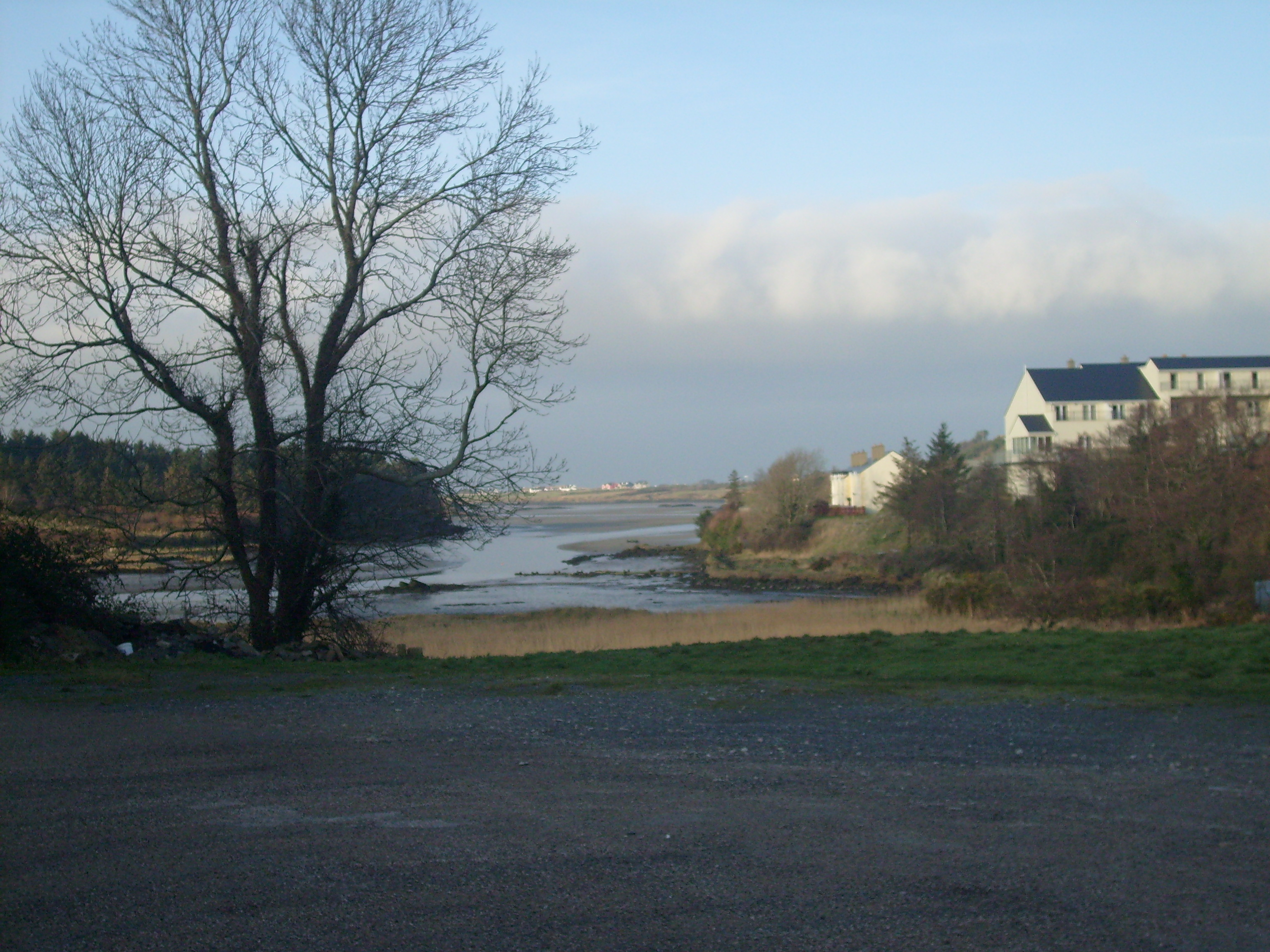 viewof Gort a Choirce